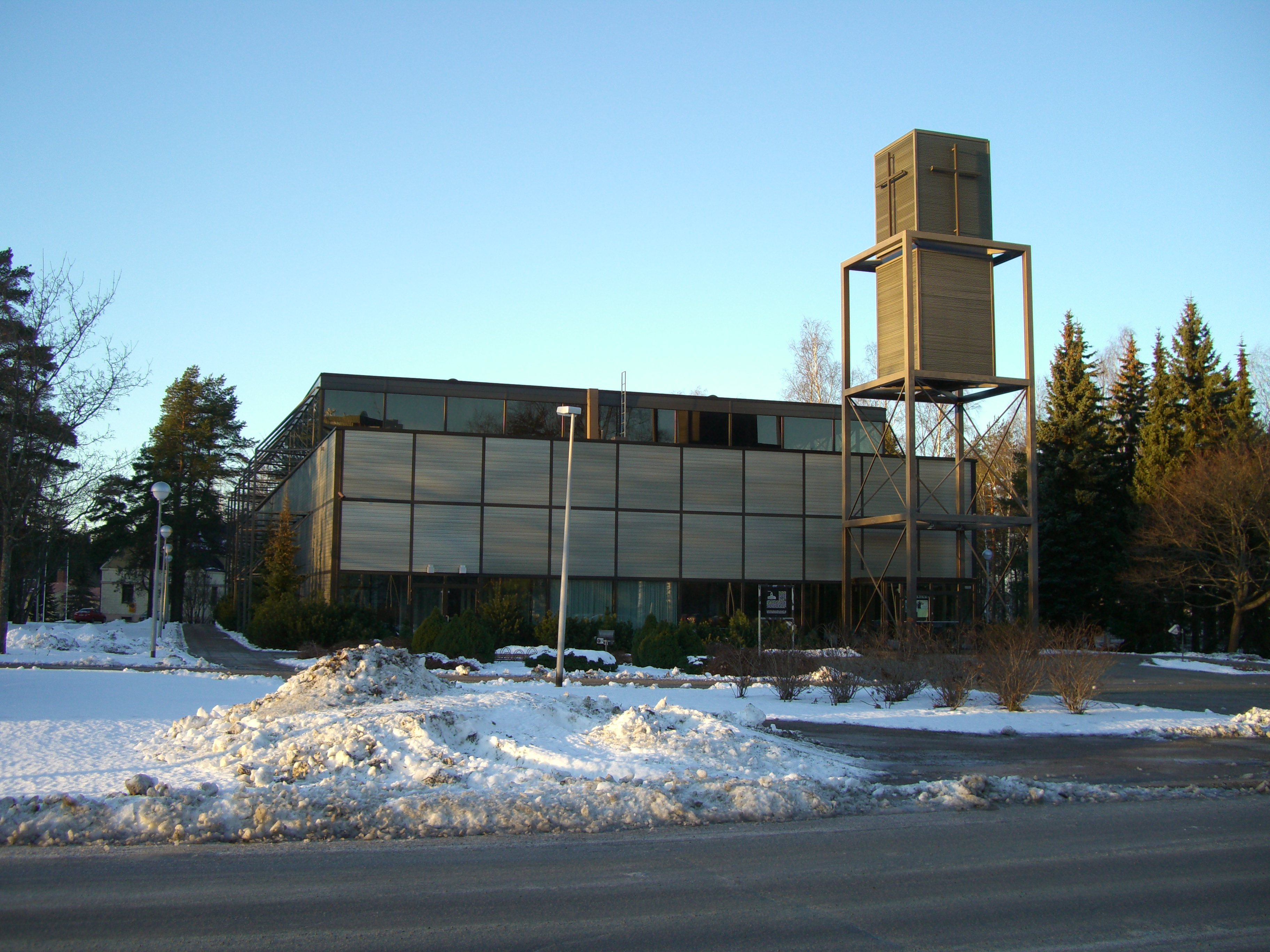 Kouvola Central Church in Kouvola, Finland, was designed by Jaakko ja Kaarina Laapotti, and completed in 1977.